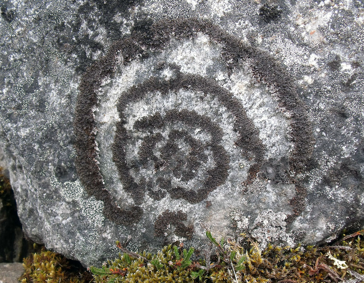 Rings of lichen on serpentine.